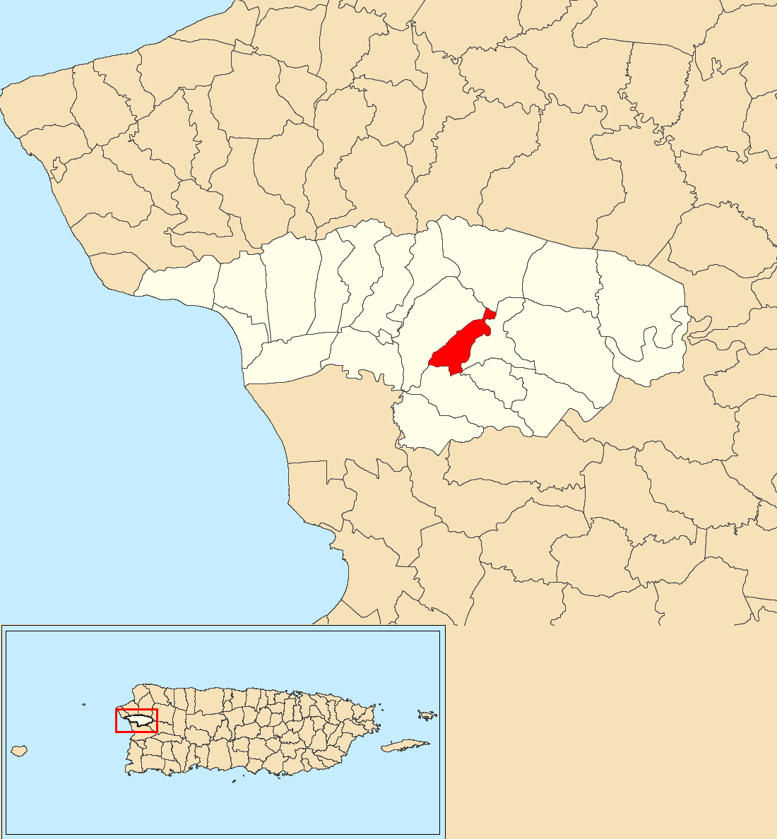 Espino, Añasco, Puerto Rico locator map